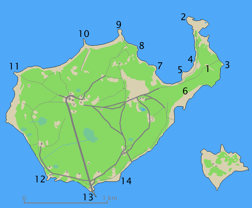 Aegna capes